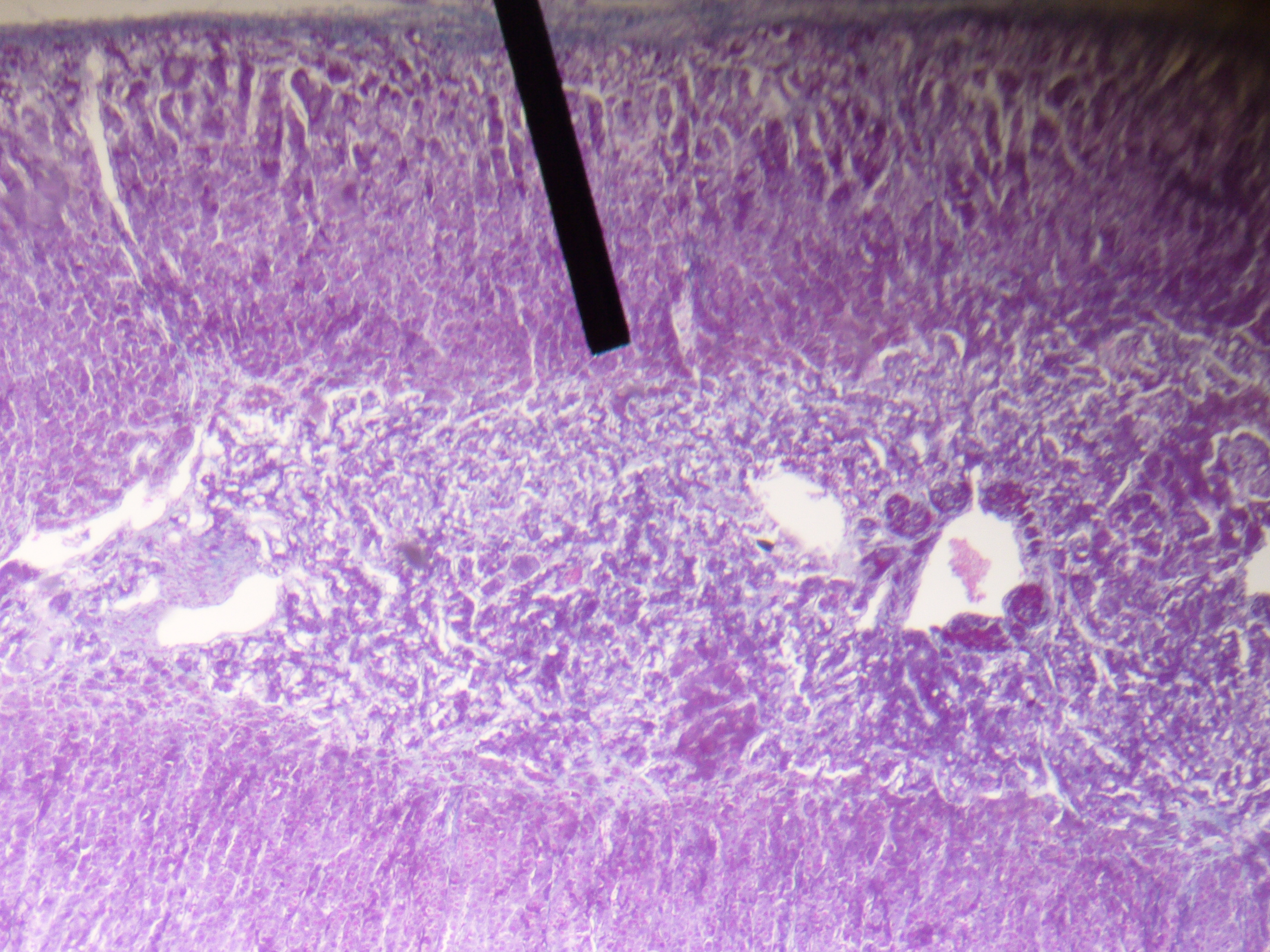 Author's own picture. Digital camera shot though a microscope; human adrenal gland (Zona reticularis). Author's own picture. Digital camera shot though a microscope; human adrenal gland (Zona reticularis).